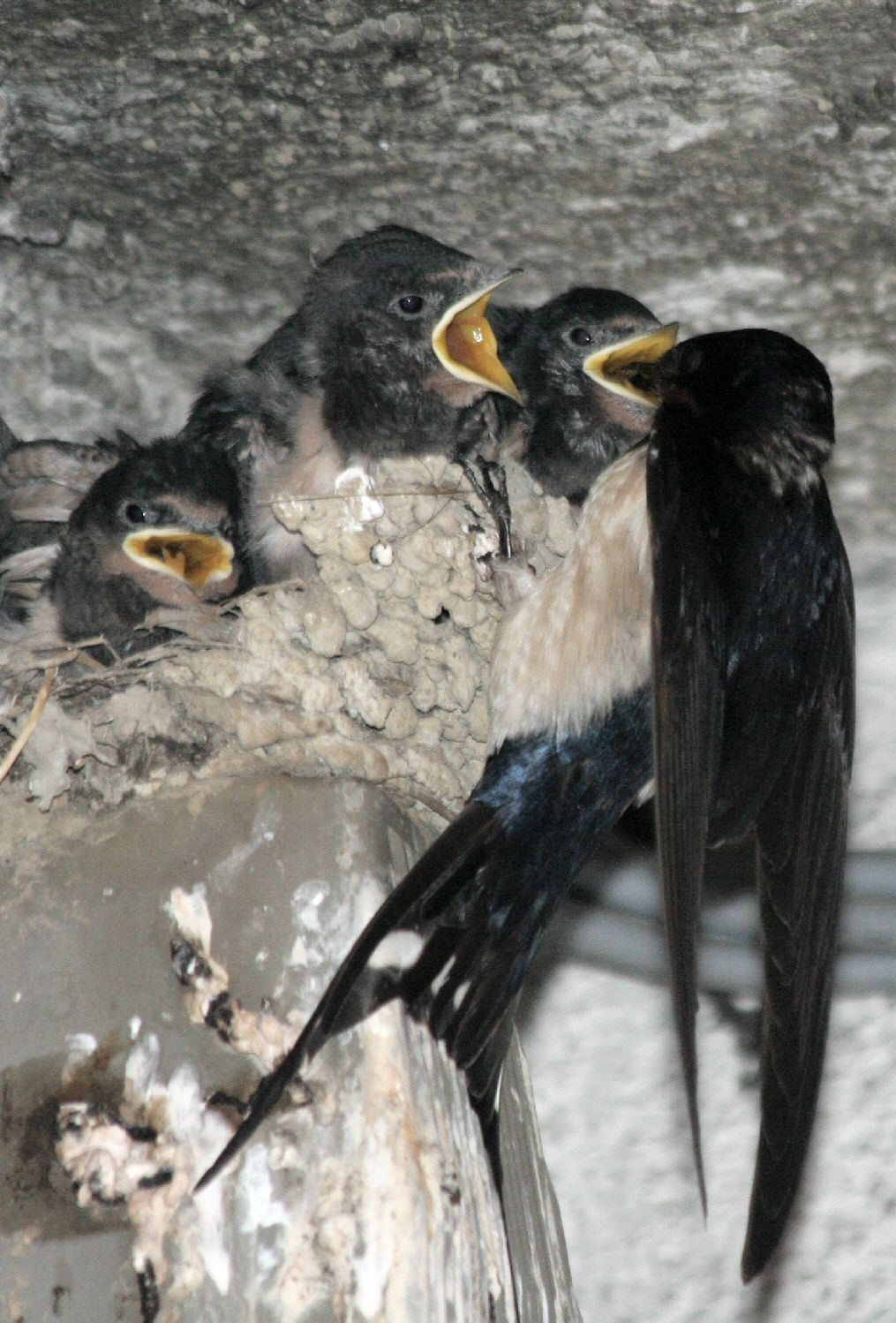 description: Hirundo_rustica_Rauchschwalbe author: H. Hoffmeister source: Foto I shot with my Canon EOS 350D date: 08.2006